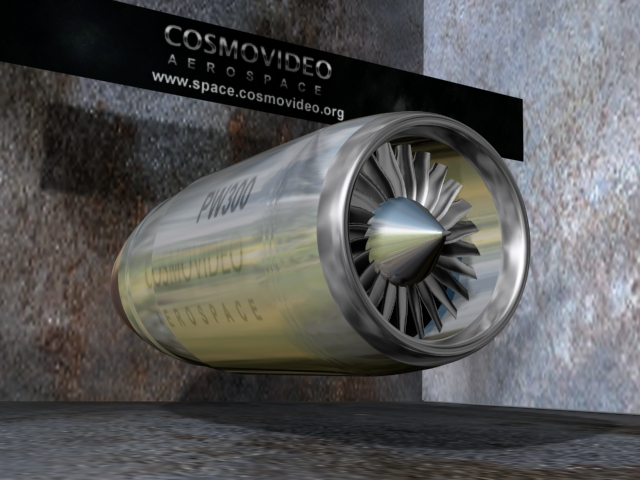 Pratt & Whitney Aircraft Turbine